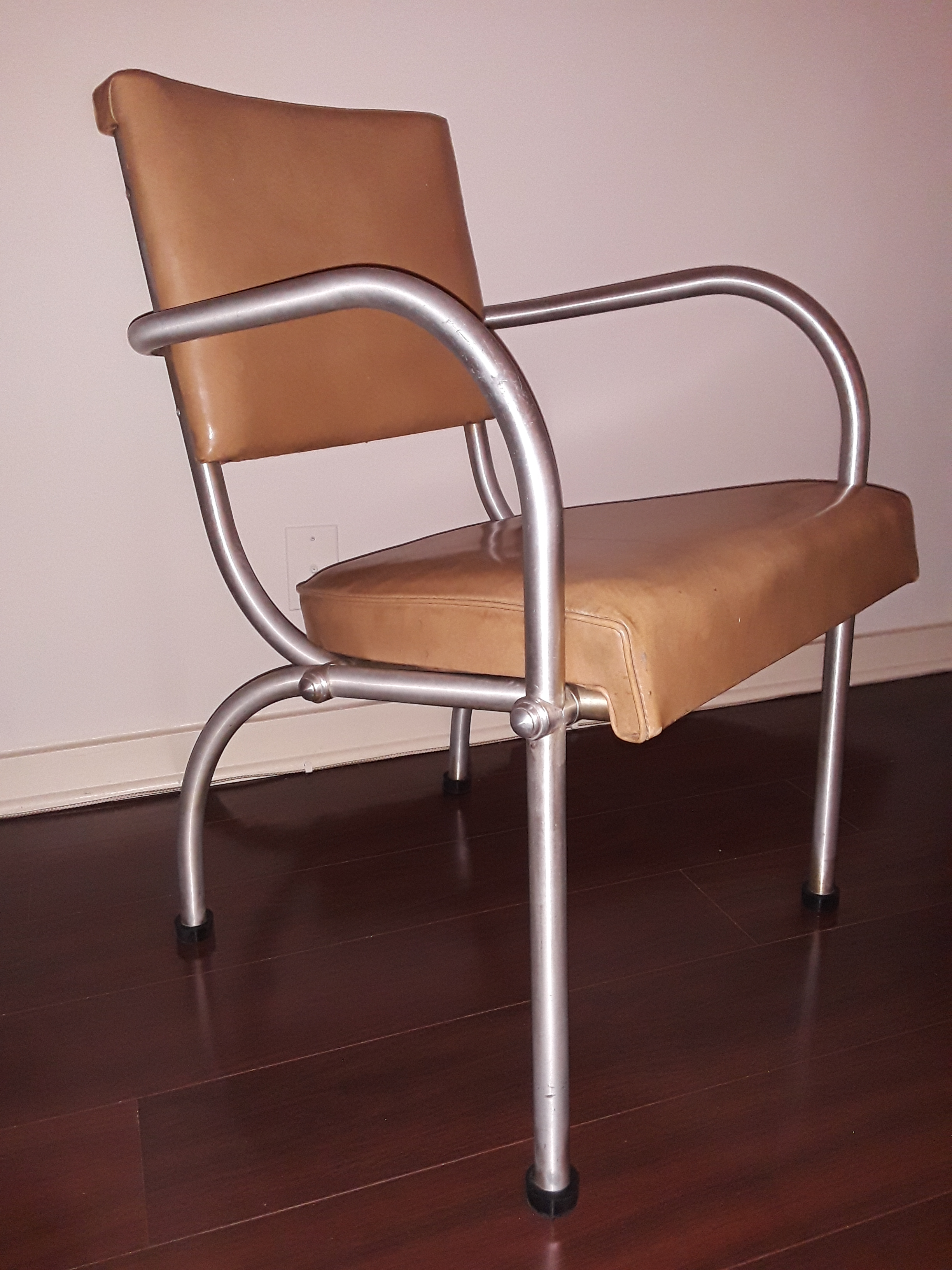 Circa 1938